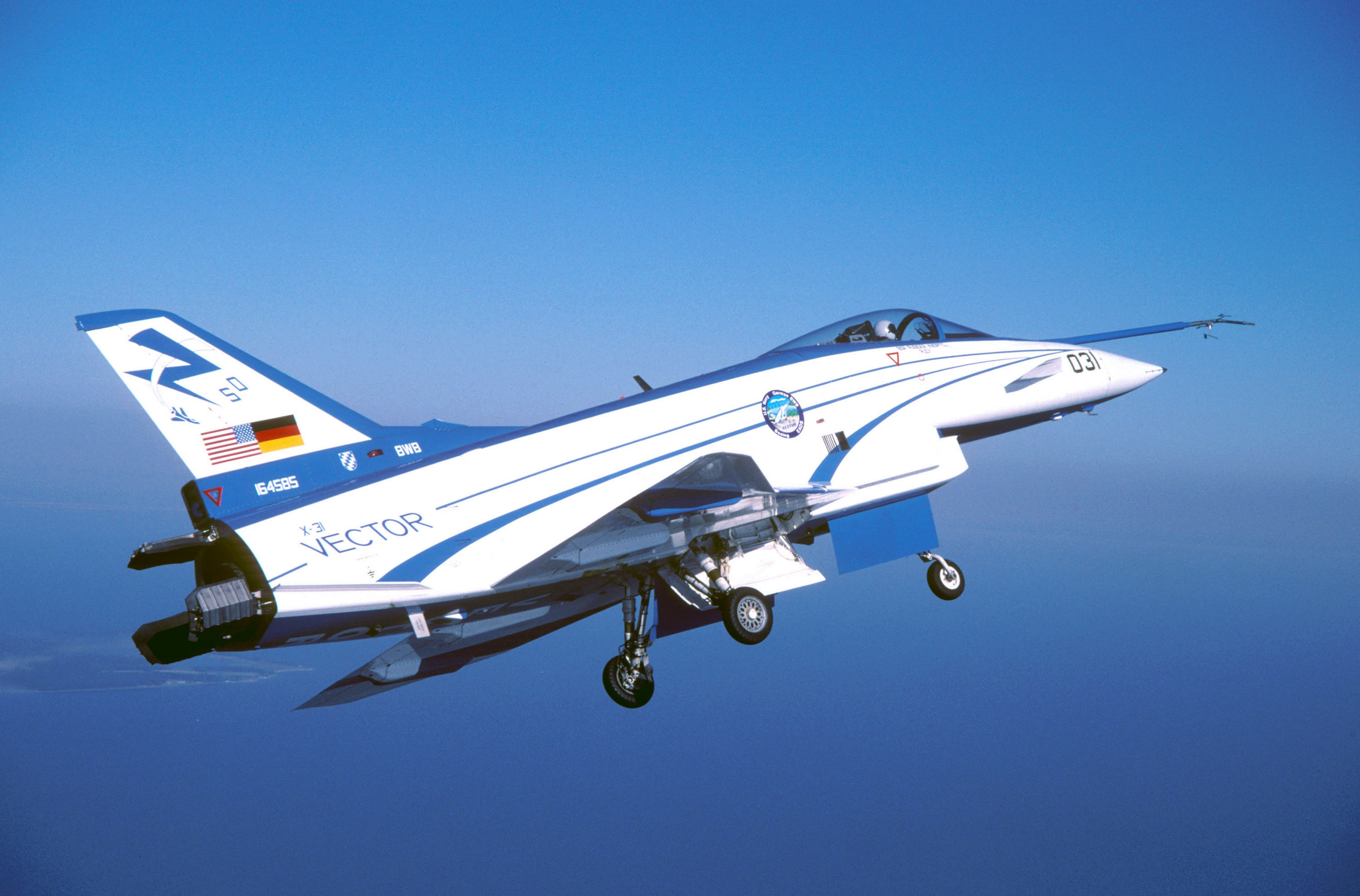 Rockwell-MBB X-31 from Naval Air Station Patuxent River, Md.